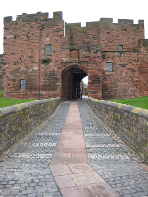 Carlisle Castle The entrance and gatehouse to Carlisle Castle.